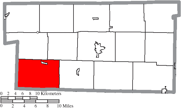 Map of the municipal and township boundaries of Holmes County, Ohio, United States, as of the 2000 census, with the location of Richland Township highlighted. Township borders are shown only in unincorporated areas in order to differentiate incorporated and unincorporated areas more clearly.